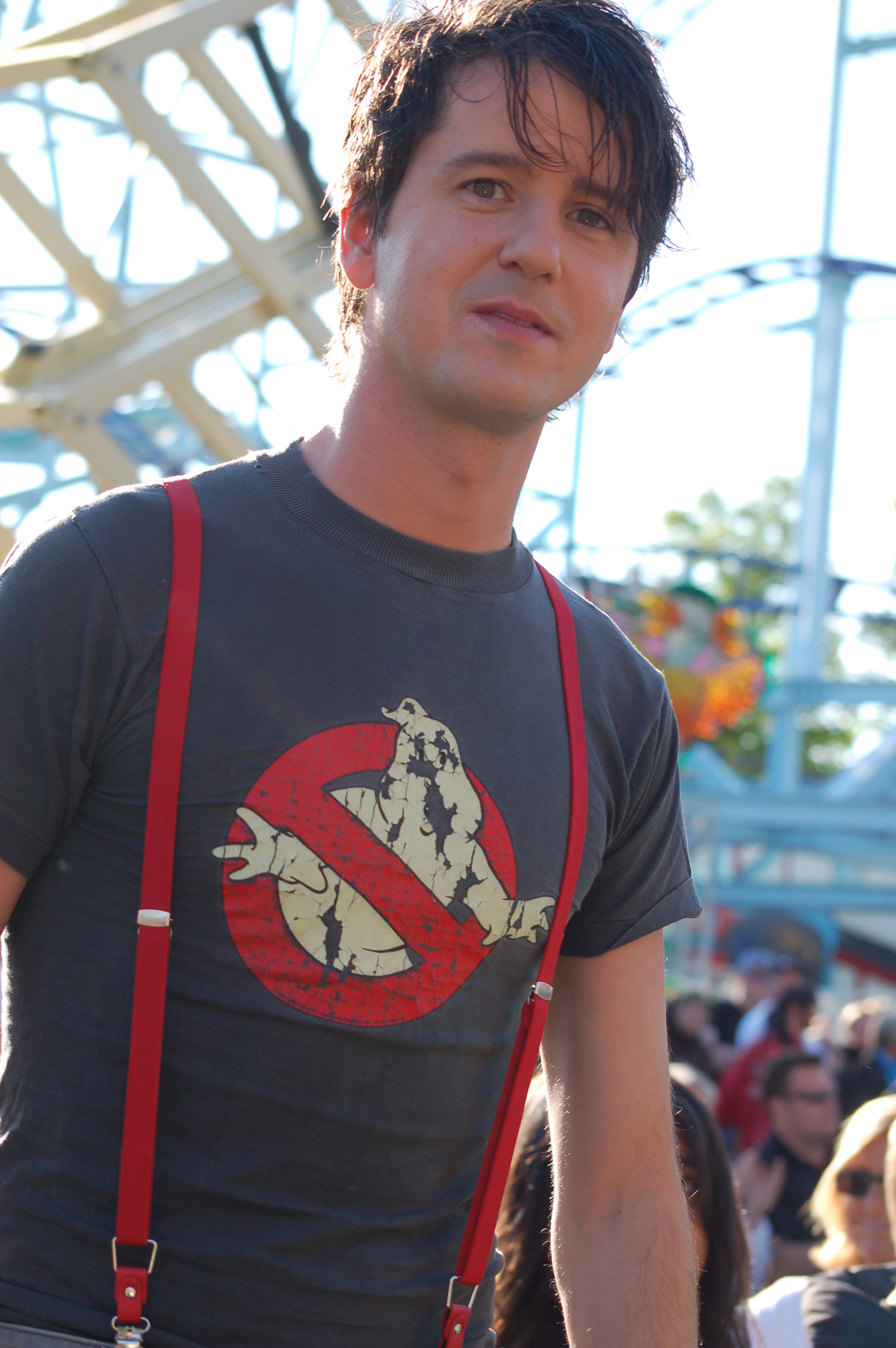 Lasse Lindh on Sommarkrysset at Gröna Lund in Stockholm, Sweden.